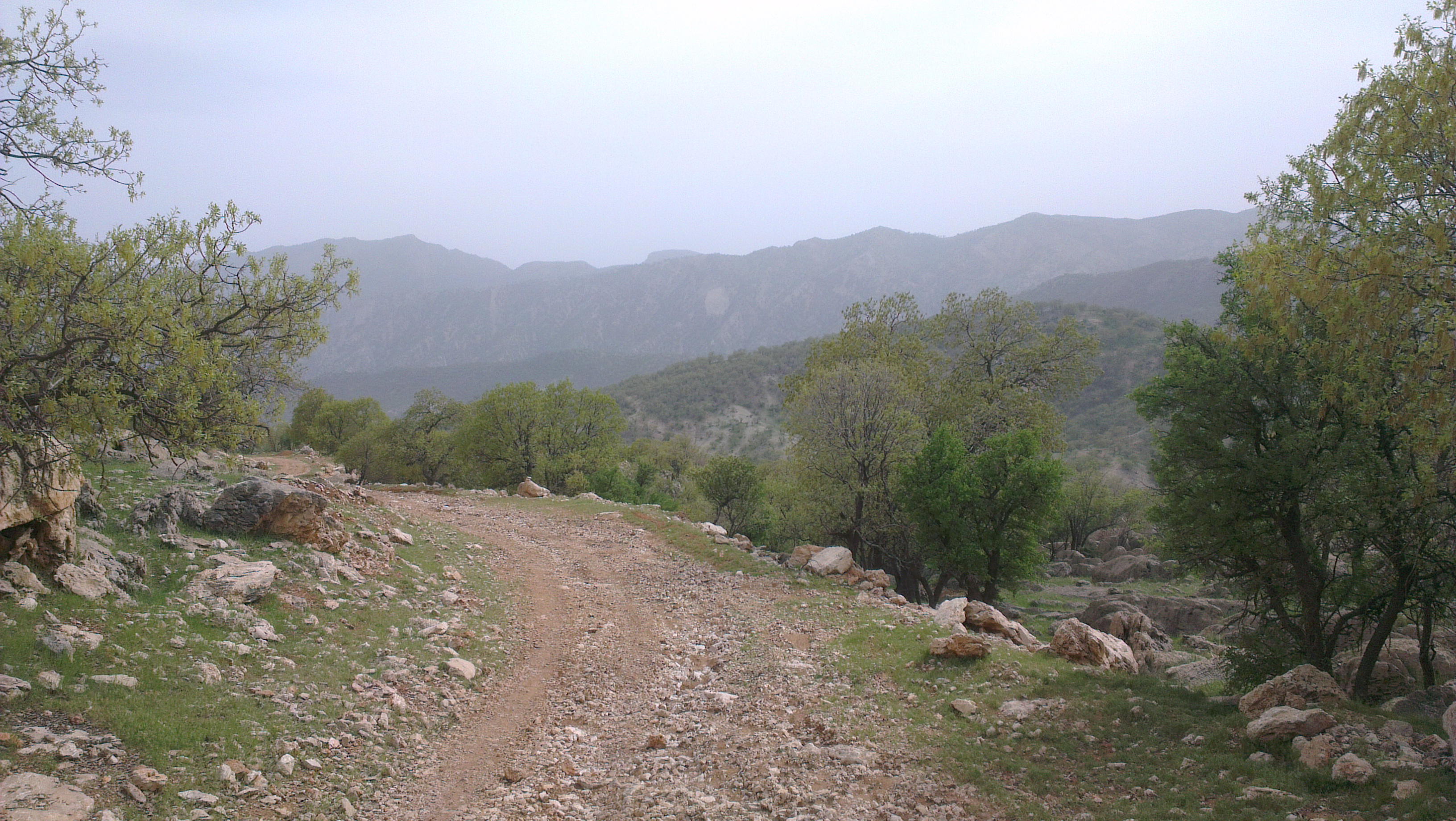 Chaste khar mountain gravel road, in Choram county,Iran